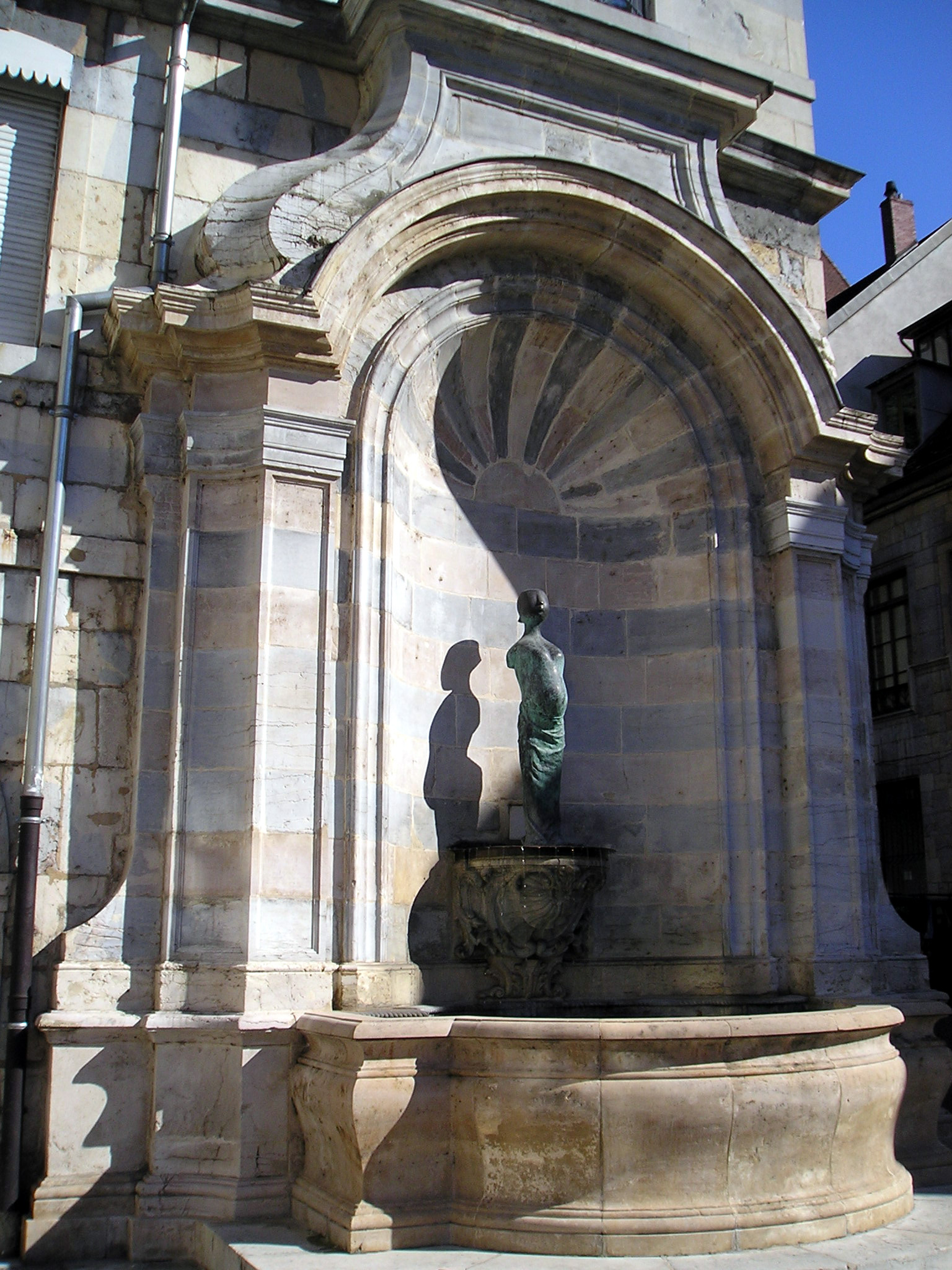 Fountain Saint-Quentin, Besançon, France